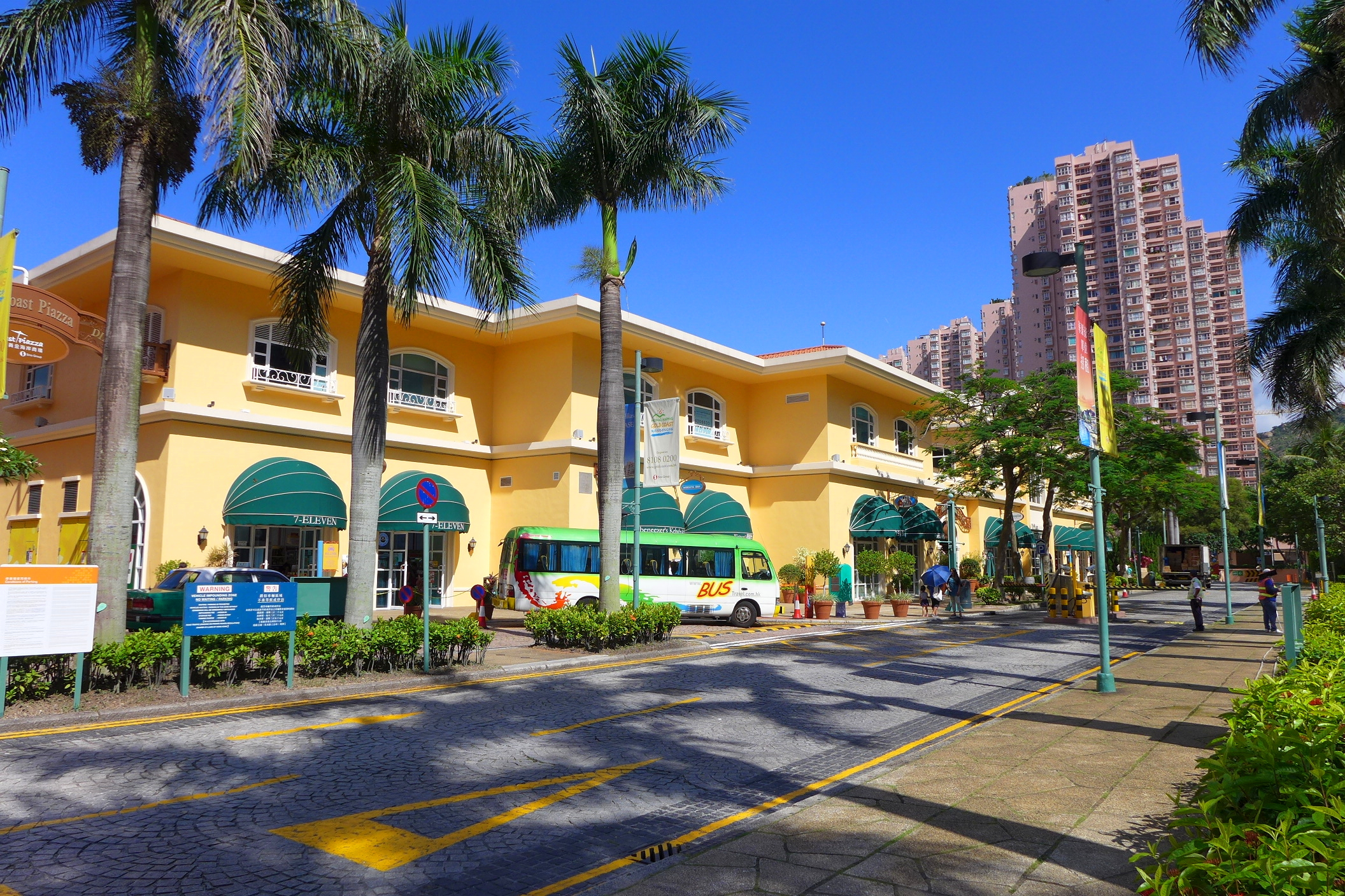 HK GoldCoast Marina Magic Shopping Mall